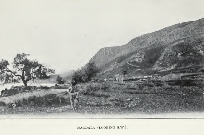 Migdal Magdala 1913